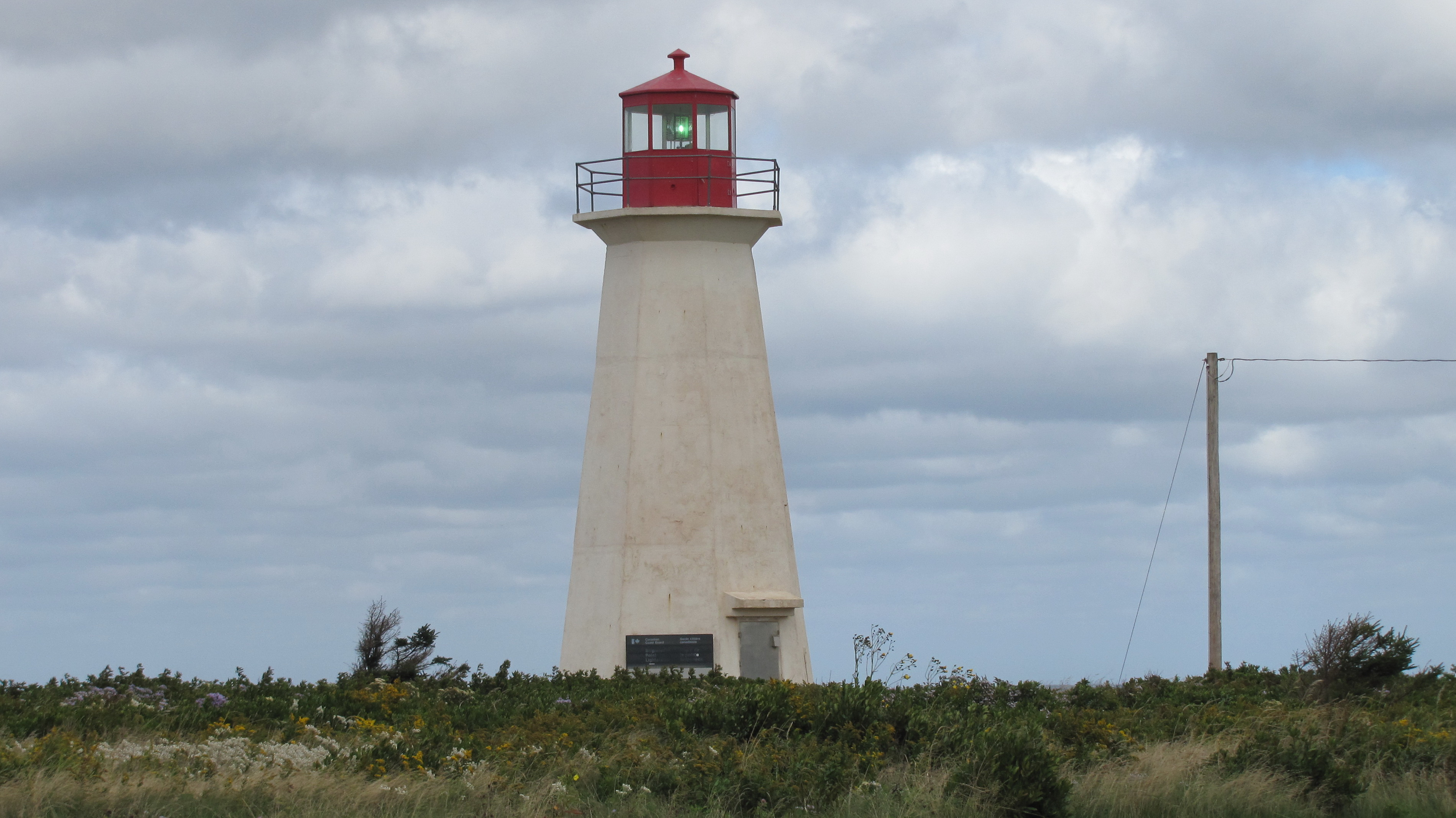 Naufrage Lighthouse, Prince Edward Island, Canada